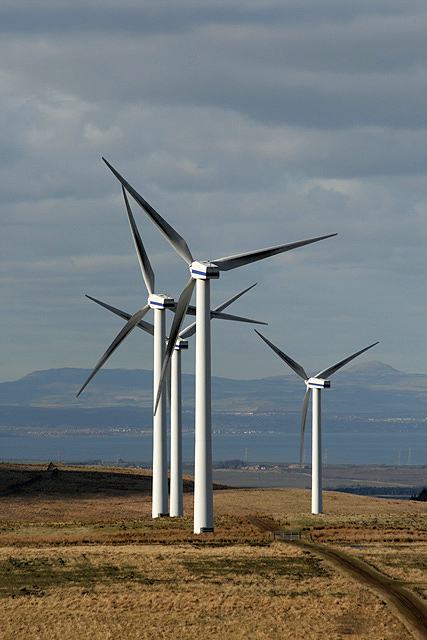 Turbines at Dun Law Wind Farm A group of four turbines on the northeast side of the A68 on Carfrae Common, viewed from Headshaw Hill.